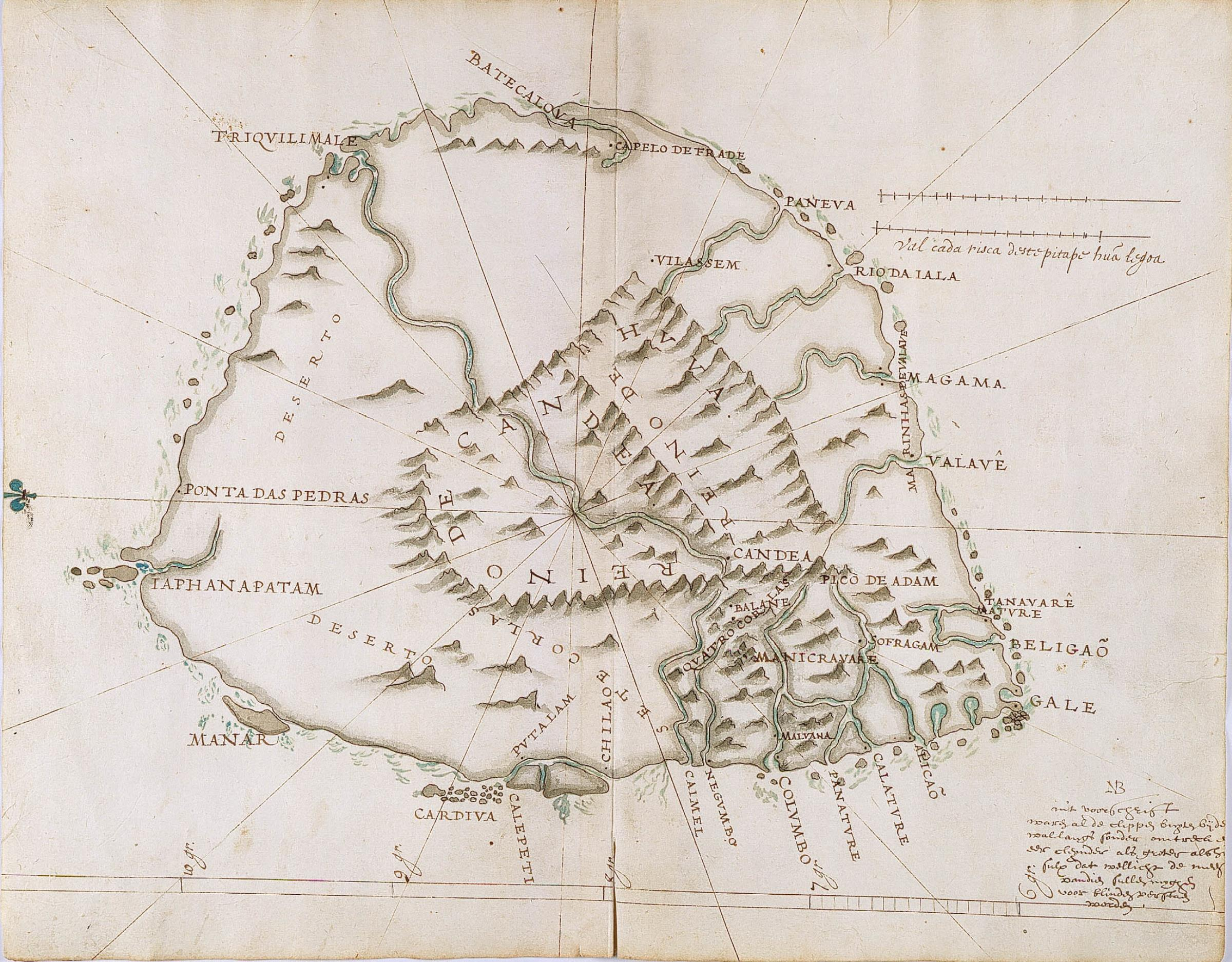 According to the Leupe catalogue (NA), the original title reads: Beschryving ende Caarten van den eylande Ceylon. This map is grouped together with the charts VEL0928(2)-(24); while the plates showing the VOC locations have also been included in this atlas. Caption in the Leupe catalogue: De [accompanying] beschrijving is in het Neder-duitsch. Het origineel was op last van den Koning van Portugal, door den Generaal van Ceilon in 1606 geschreven. De naam van den vertaler der Hollandsche tekst is onbekend. Caption in the Leupe catalogue: Facsimile met inleiding E. Reimers NA bibliotheek 196 E4 / [in the front:] volgens aantekening verkregen door ruiling met de Koninklijke Bibliotheek. The object is tied around with a parchment cover. Topographical names mentioned of places which are featured on charts in the series (2-24) are: Columbo, Negumbo, Chilao, Putalam, Calpeti/Calepeti, Manar, Iaphanapatam, Triquilimale, Bahia dos Arcos, Batecalou, Tanavare, Mature, Biligao/Beligao, Gale, Alicao, Caleture/Calature, Sofragam, Malvana, Manieravare. Topographical names of other places mentioned on this chart: Capelo de Frade, Paneva, Vilassem, Rio da Iala, Magama, Valave, Panature, Caimel, Ponta das Pedras, Putalam, Manicravare, Pico de Adam, Quatro Corlas, Balane, Candea.